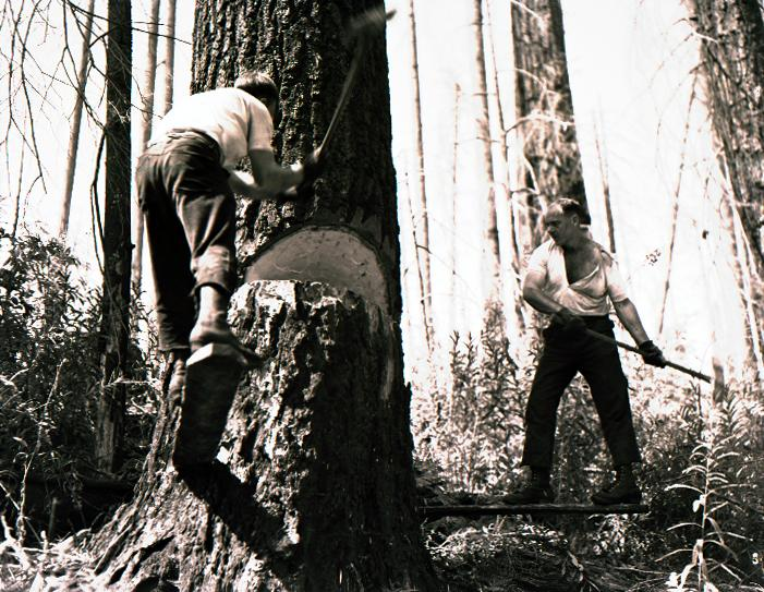 Fallers undercutting fire-killed Douglas-fir. Meehan operation. Tillamook Burn, Oregon. Photo by: Robert L. Furniss Date: August 25, 1938 Credit: USDA Forest Service, Pacific Northwest Region, State and Private Forestry, Forest Health Protection. Collection: Bureau of Entomology, Robert L. Furniss Collection; La Grande, Oregon. Image: F-309 To learn more about this photo collection see: Wickman, B.E., Torgersen, T.R. and Furniss, M.M. 2002. Photographic images and history of forest insect investigations on the Pacific Slope, 1903-1953. Part 2. Oregon and Washington. American Entomologist, 48(3), p. 178-185. For additional historical forest entomology photos, stories, and resources see the Western Forest Insect Work Conference site: Image provided by USDA Forest Service, Pacific Northwest Region, State and Private Forestry, Forest Health Protection: This image or file is a work of a United States Department of Agriculture employee, taken or made as part of that person's official duties. As a work of the U.S. federal government, the image is in the public domain.